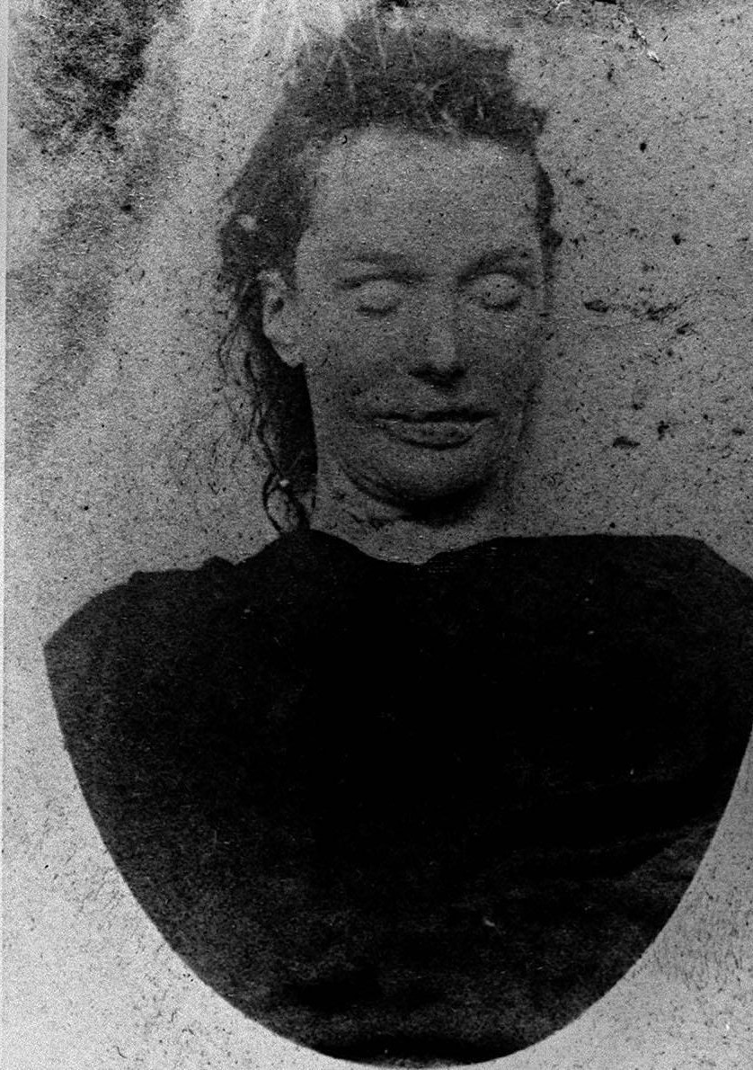 Victorian mortuary photograph of murder victim Elizabeth Stride